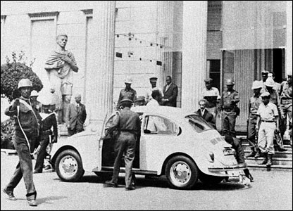 The deposition of Emperor Haile Selassie I (above rear mirror) from the Jubilee Palace on 12 September 1974, marking the coup d'etat's action on that day and the assumption of power by the military junta known as the Derg.